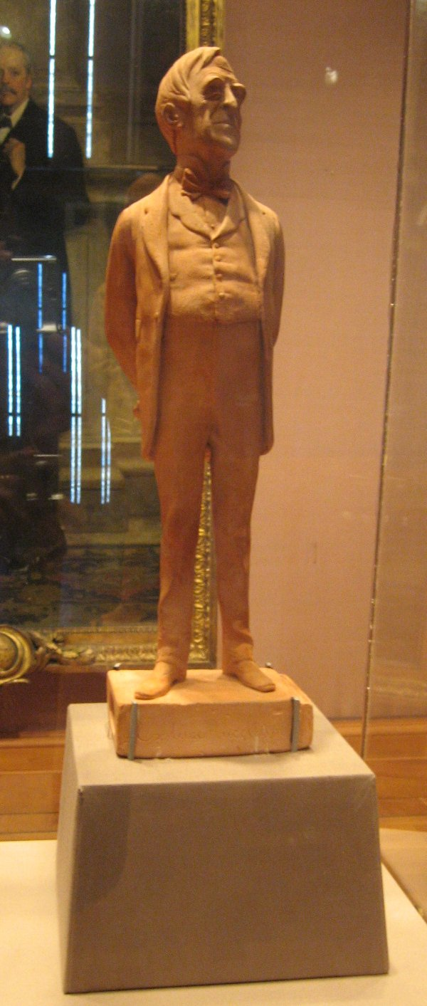 Photograph of a unique statuette in terracotta of Robert Lowe, 1st Viscount Sherbrooke (1811-1892) by Carlo Pellegrini, at the National Portrait Gallery, London. As Chancellor of the Exchequer in 1871, Lowe proposed a tax of one half-penny on a box of matches. London match-makers took to the streets in protest and Lowe was forced to back down. He is shown standing on a match-box, which bears the inscription he coined, 'Ex luce lucellum', - 'Out of light a little gain.' The figure is dated 1873.